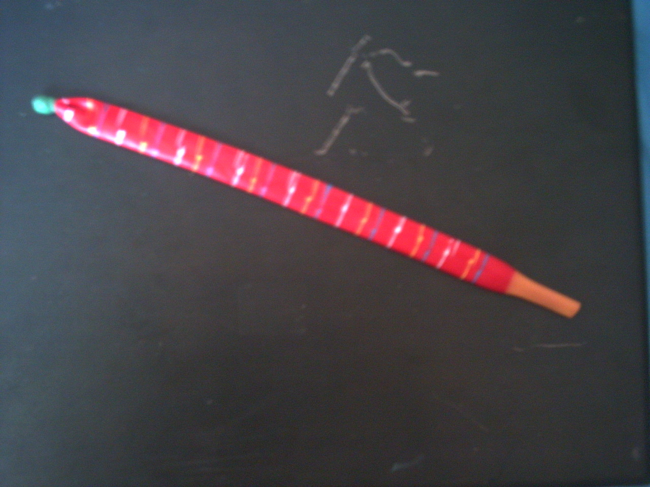 A deflated rocket balloon.